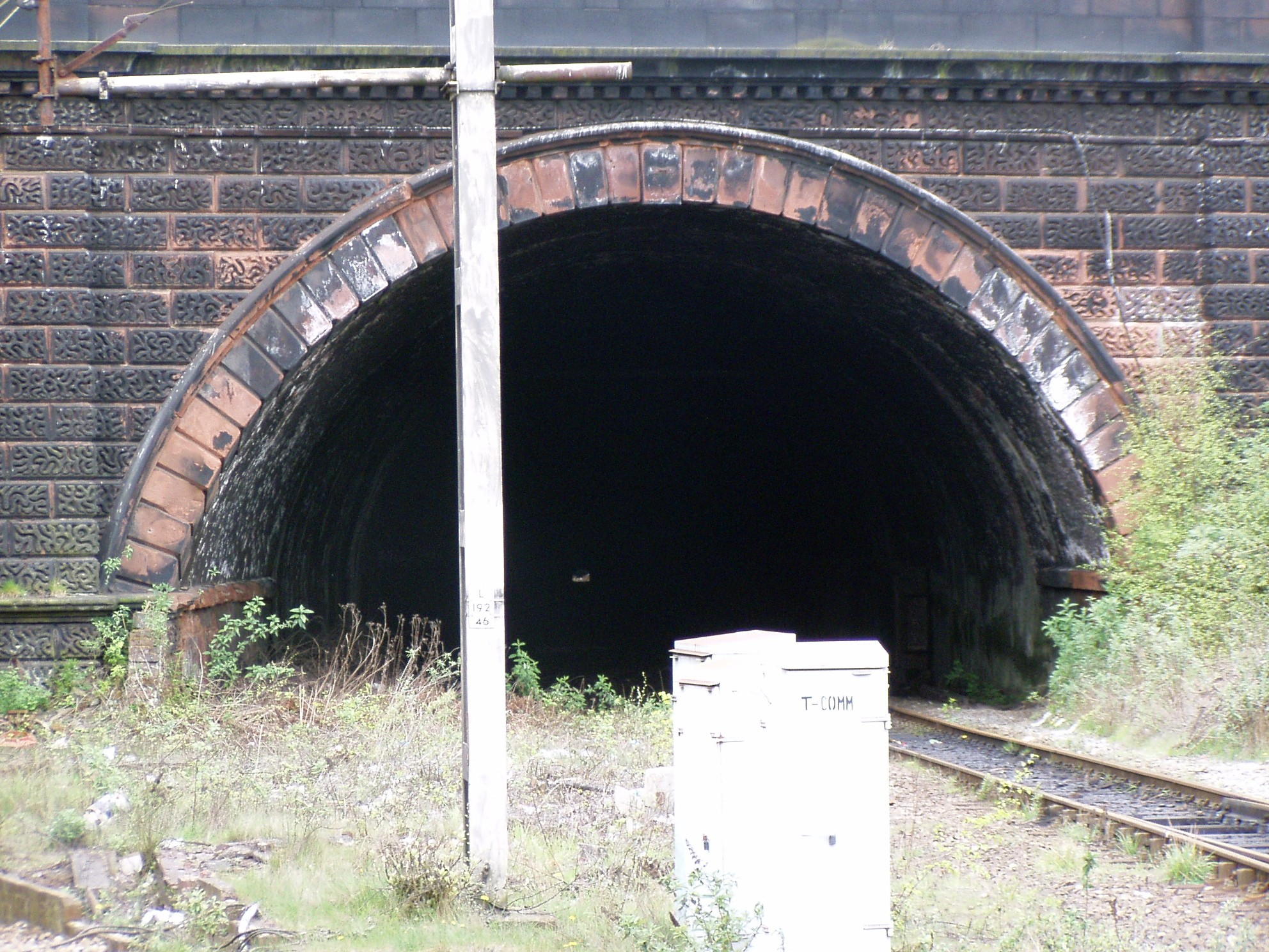 Victoria Tunnel Enterance at Edge Hill Station